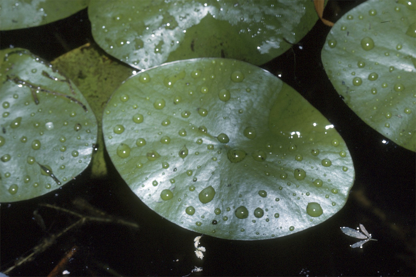 Brasenia schreberi J.F. Gmel. (watershield)